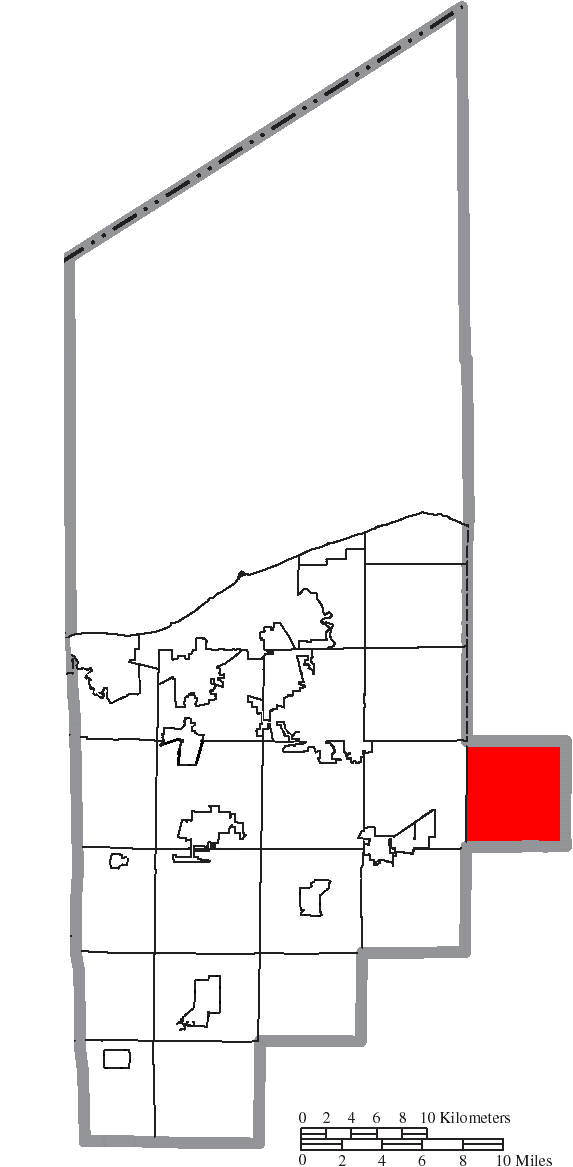 Map of the municipal and township boundaries of Lorain County, Ohio, United States, as of the 2000 census, with the location of Columbia Township highlighted. Township borders are shown only in unincorporated areas in order to differentiate incorporated and unincorporated areas more clearly.